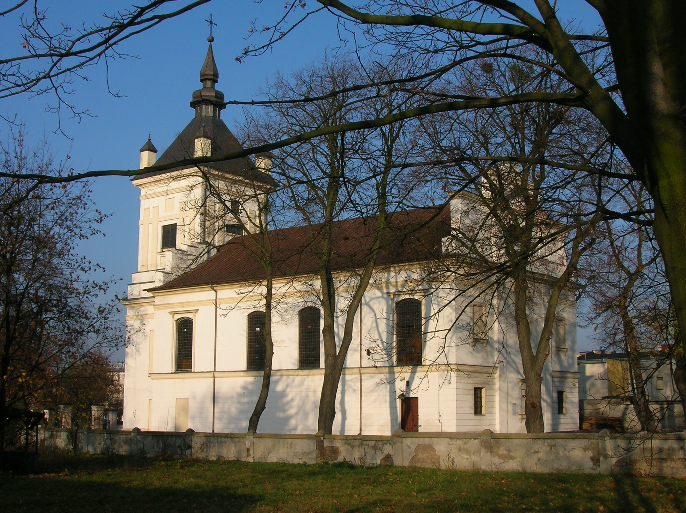 The church in Dobrzyń (Golub-Dobrzyń), Poland